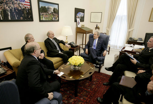 President George W. Bush receives members of Lebanons "March 14" alliance